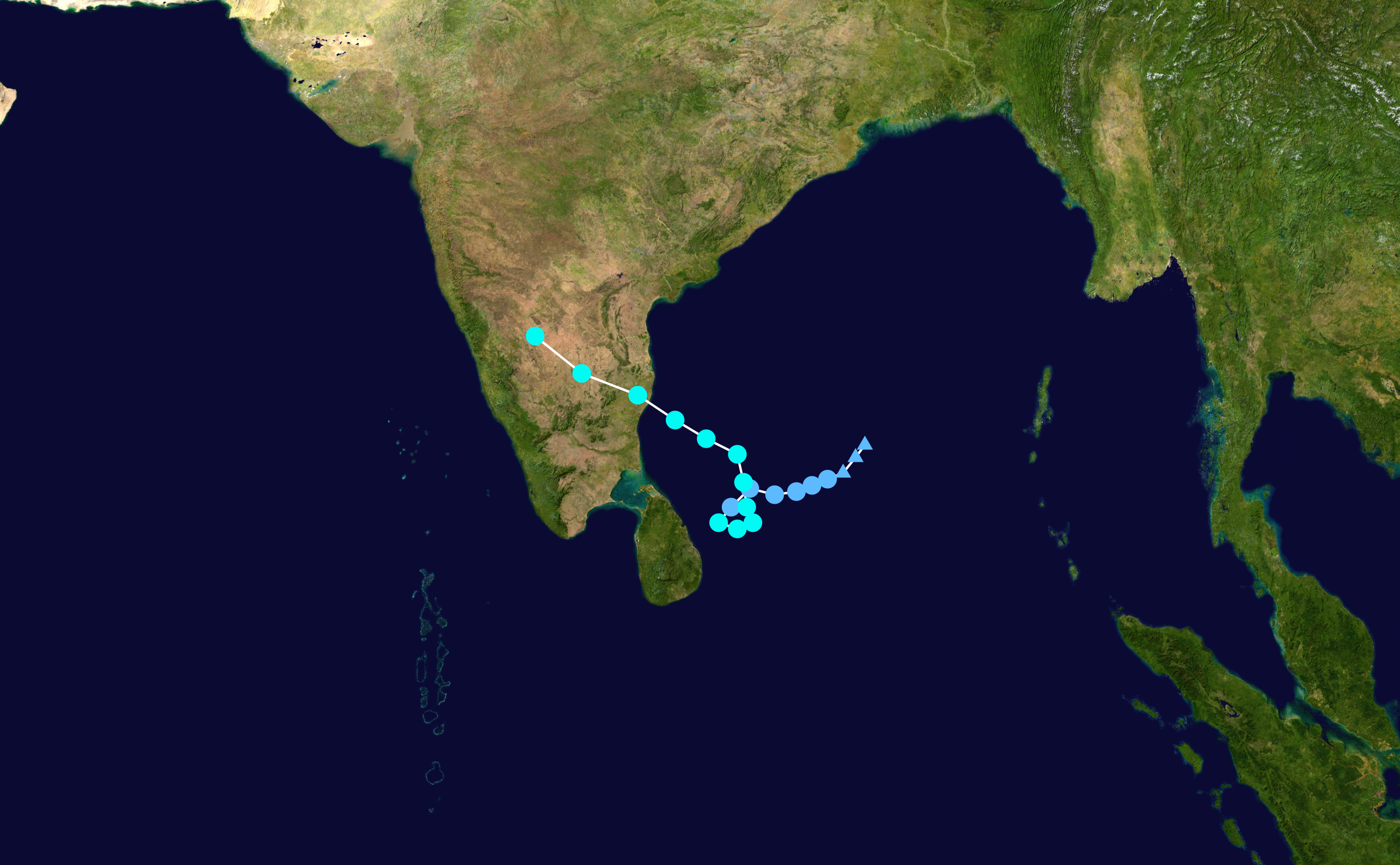 Track map of Cyclonic Storm Nilam of the 2012 North Indian Ocean cyclone season. The points show the location of the storm at 6-hour intervals. The colour represents the storm's maximum sustained wind speeds as classified in the Saffir–Simpson scale (see below), and the shape of the data points represent the nature of the storm, according to the legend below. Saffir–Simpson scale Tropical depression≤38 mph≤62 km/h Category 3111–129 mph178–208 km/h Tropical storm39–73 mph63–118 km/h Category 4130–156 mph209–251 km/h Category 174–95 mph119–153 km/h Category 5≥157 mph≥252 km/h Category 296–110 mph154–177 km/h Unknown Storm type Tropical cyclone Subtropical cyclone Extratropical cyclone / Remnant low / Tropical disturbance / Monsoon depression